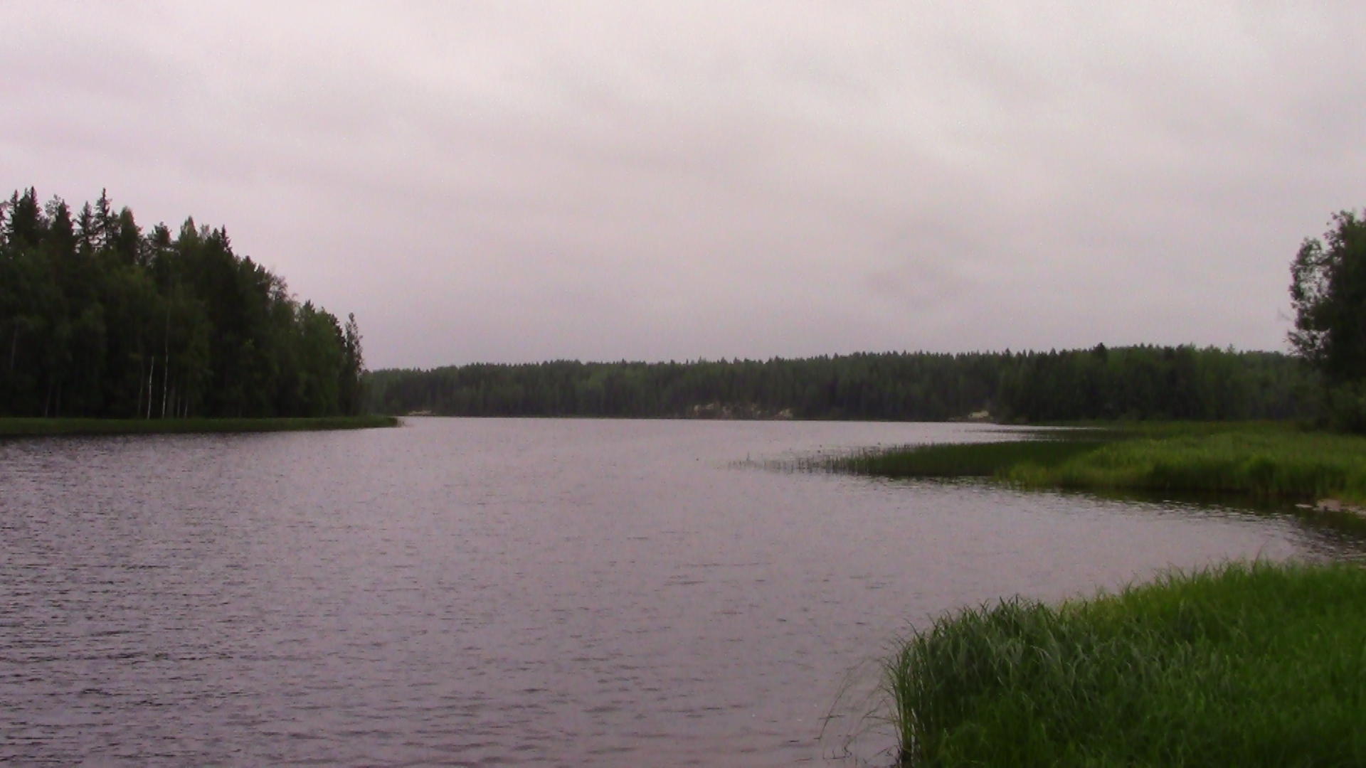 Lake Uurasjärvi as seen from Kotala boat harbour in Virrat, Finland.